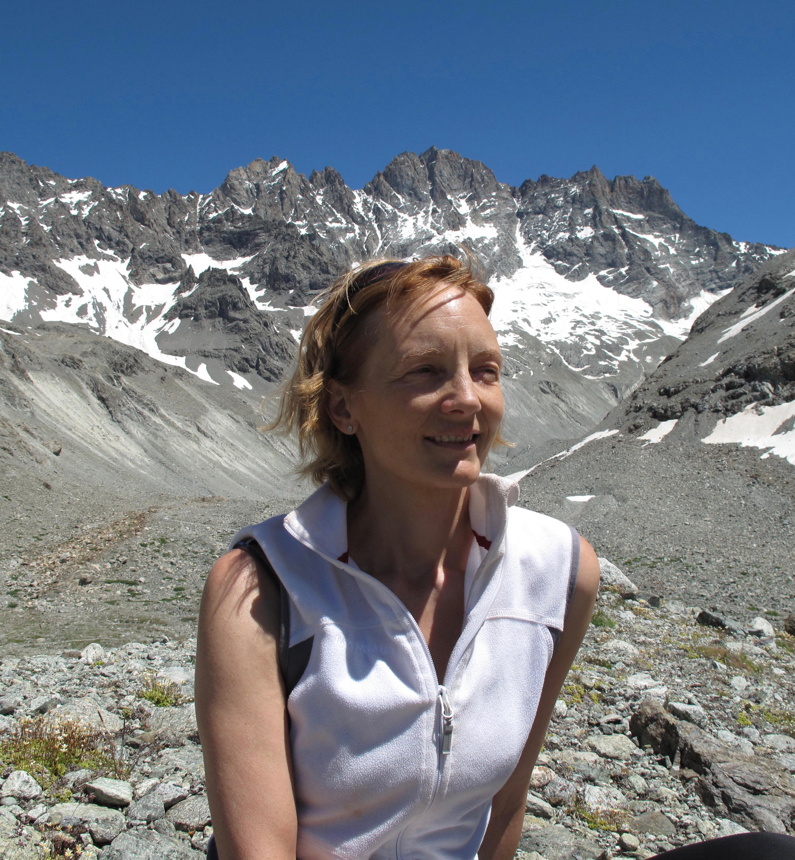 Jemma Wadham and the Bouquetins Ridge, above the Haut Glacier d'Arolla where she started her glaciological studies in 1993